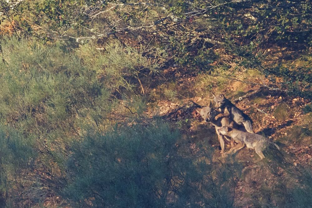 Iberian Wolf pups stimulating the alpha female to regurgitate some meat 2